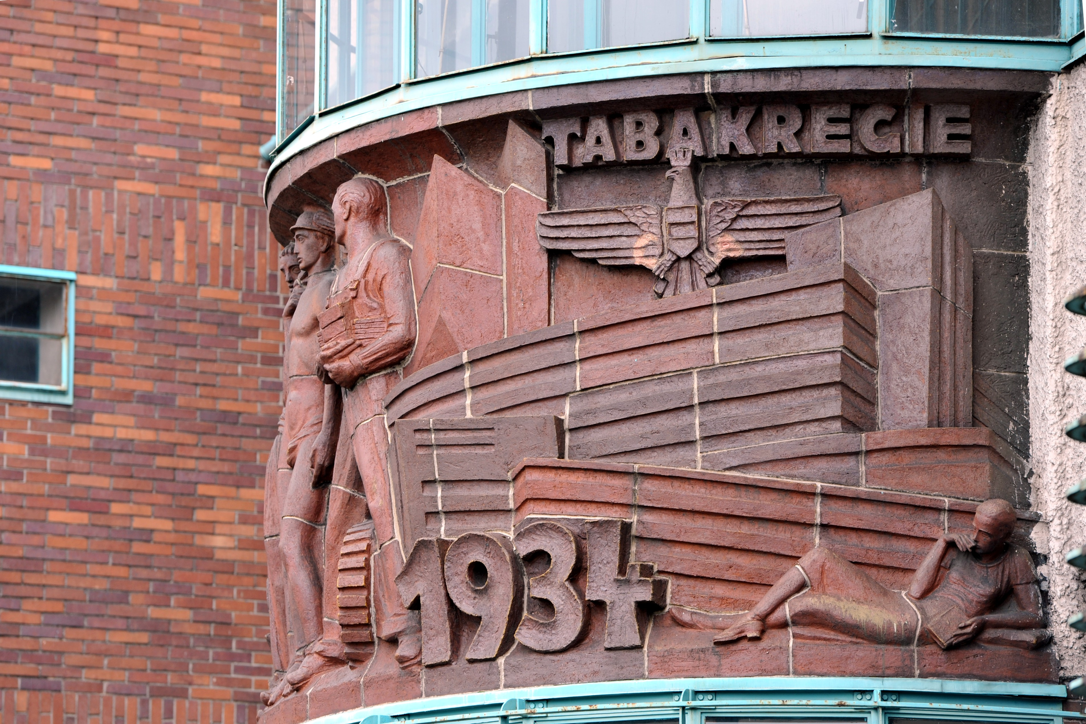 Austria Tabakwerke Linz The making of this work was supported by Wikimedia Austria. For other files made with the support of Wikimedia Austria, please see the category Supported by Wikimedia Österreich.